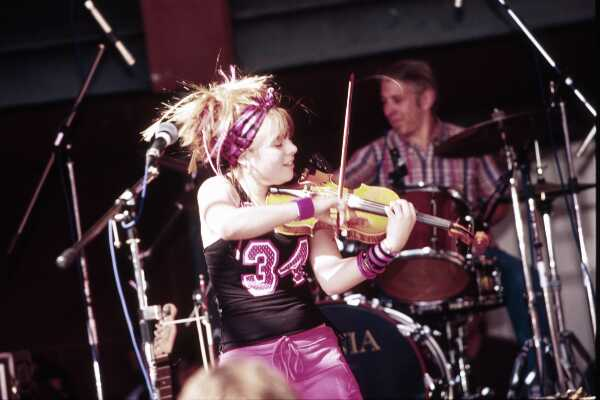 Amanda Shaw performs at the French Quarter Festival, New Orleans, March 2007.